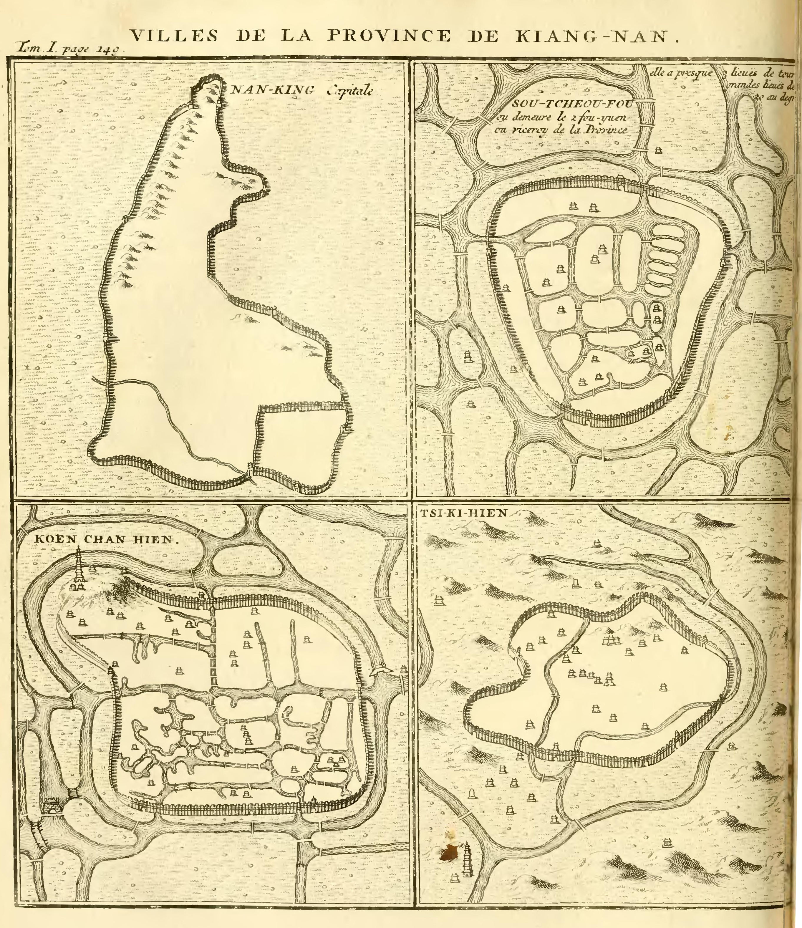 "Towns of the Province of Jiangnan". Maps of Nanjing (南京), Suzhoufu (蘇州府), Kunshanxian (崑山縣), and either Jixixian (績溪縣) in Anhui or Jinxixian (錦溪縣) in Jiangsu, from La Haye's edition of Du Halde's Description of China, Vol. I, p. 149.